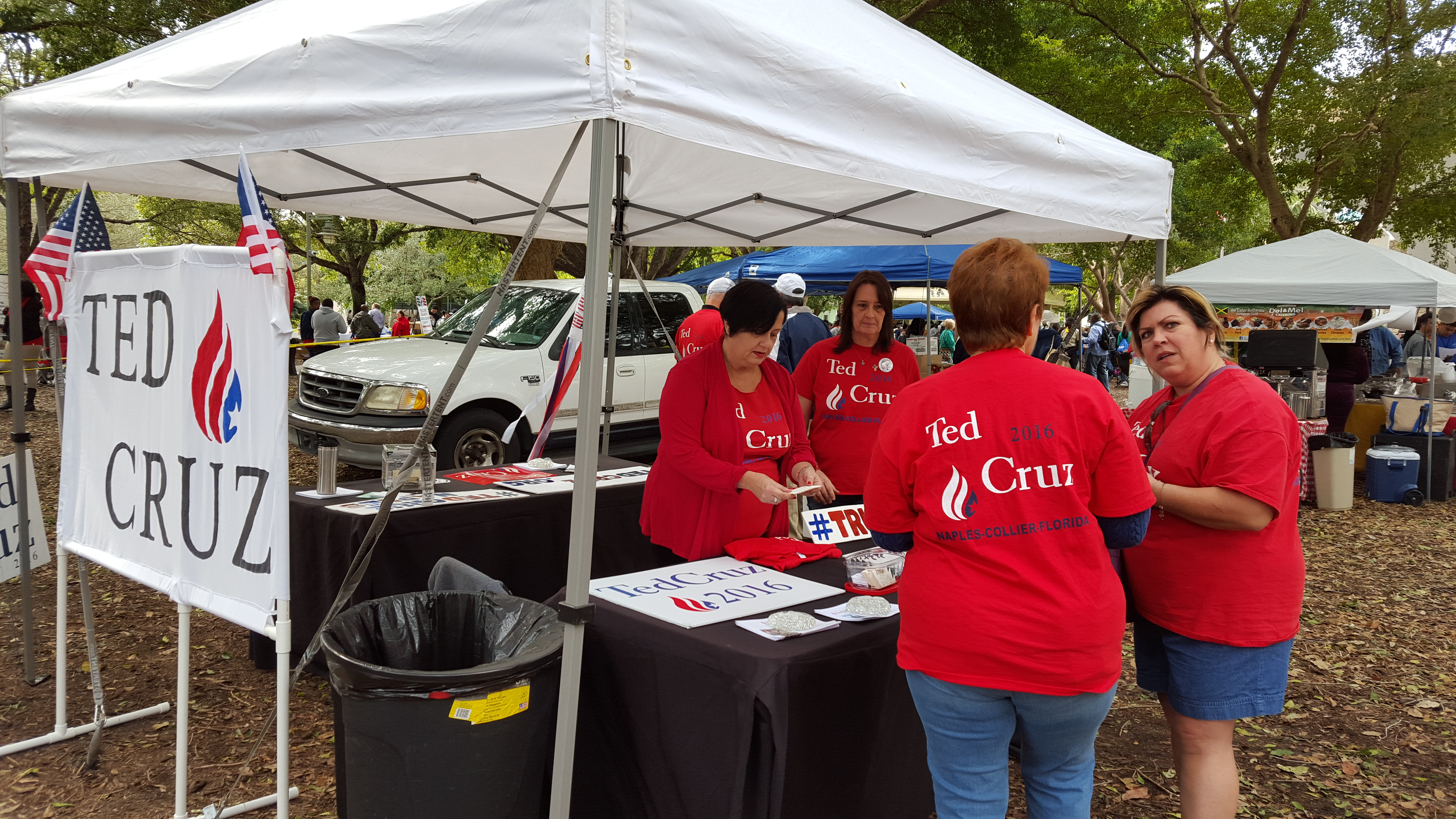 A Ted Cruz supporter Booth Naples, Florida in 2016.